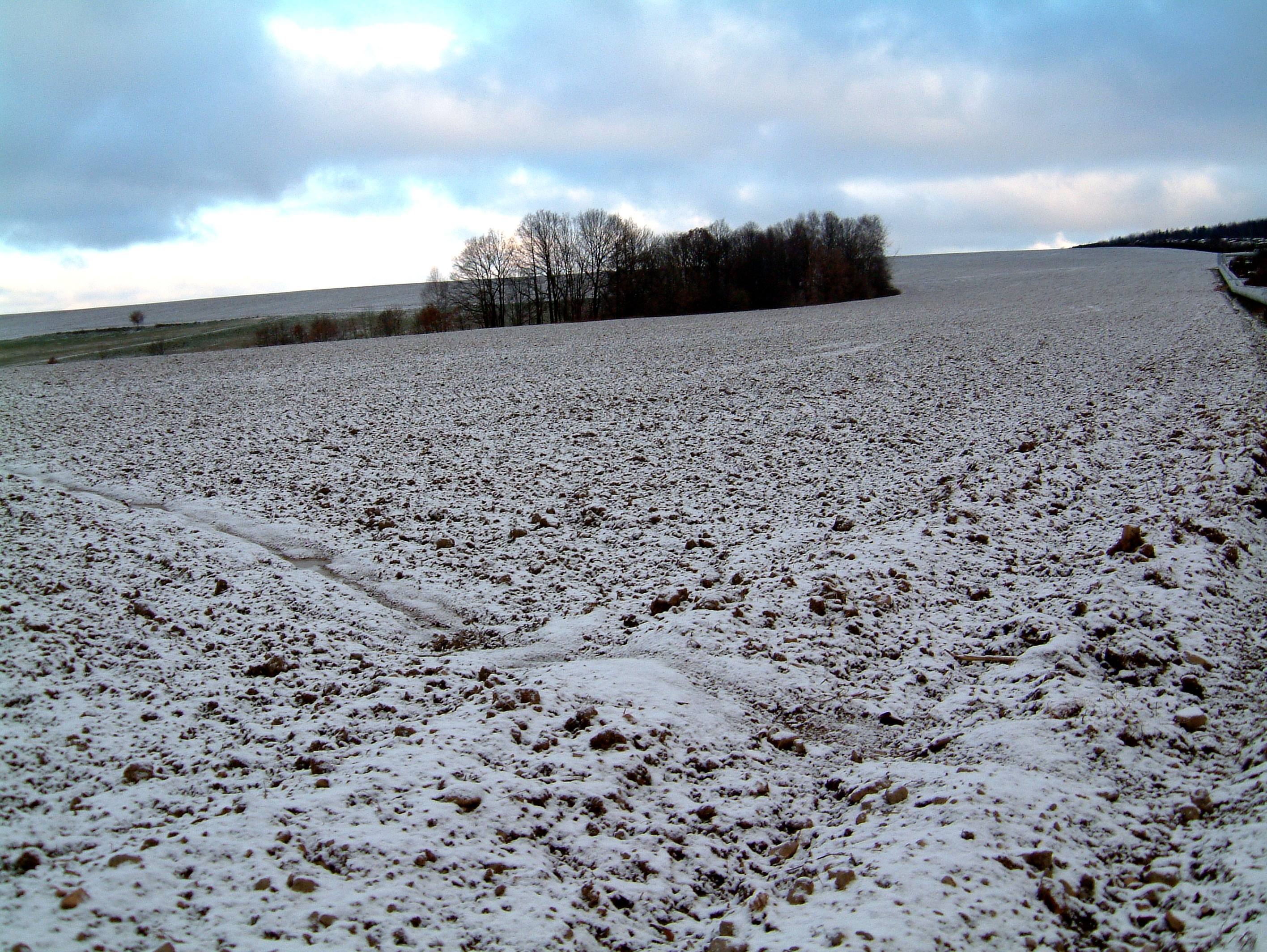 fresh-fallen snow - Neuschnee_7_December_2003